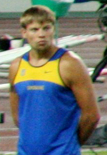 World Athletics Championships 2007 in Osaka - Line-up of the participants in the men*s pole vault final: Denys Yurchenko